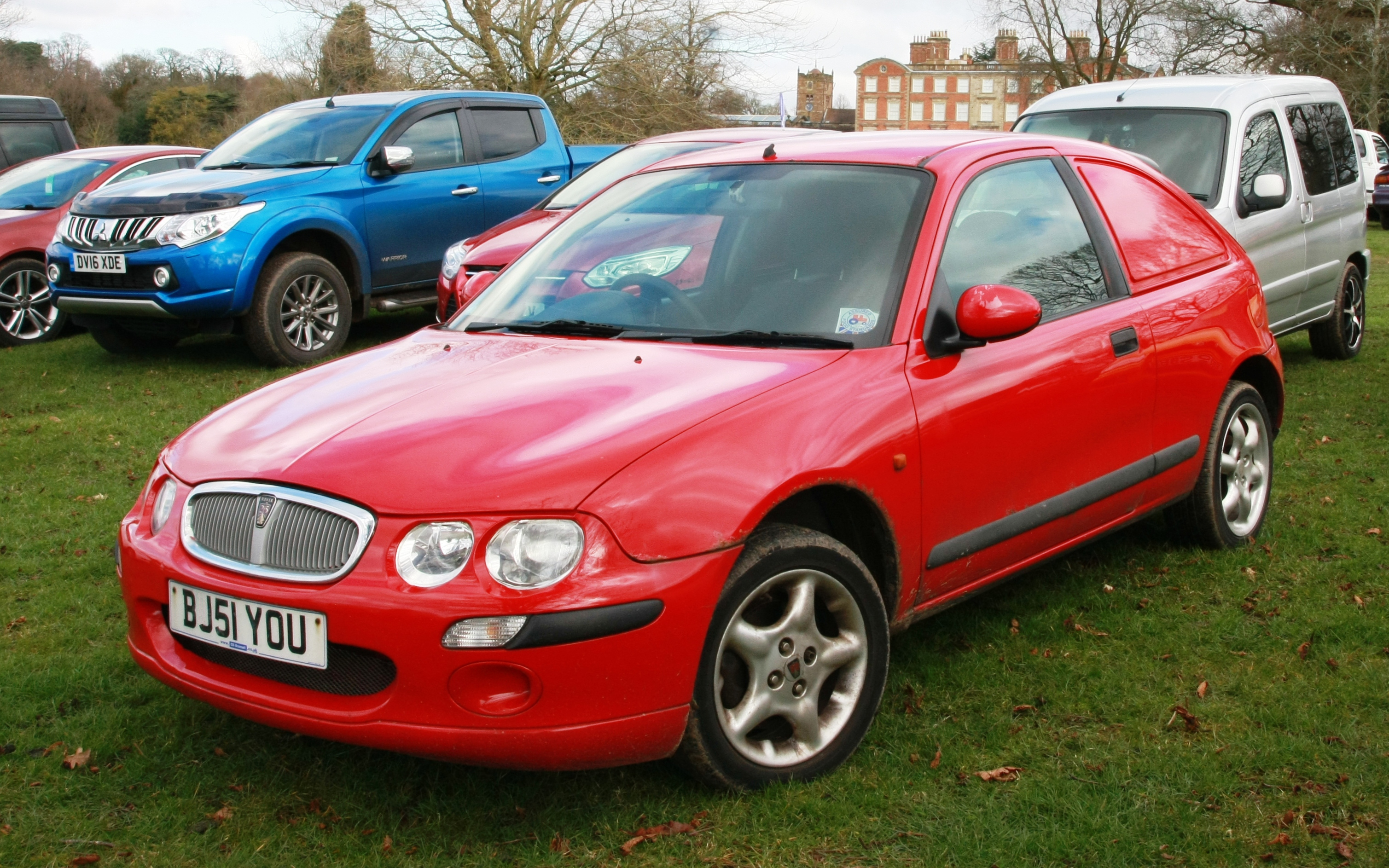 Rover 25 van aka Rover Commerce (2001)